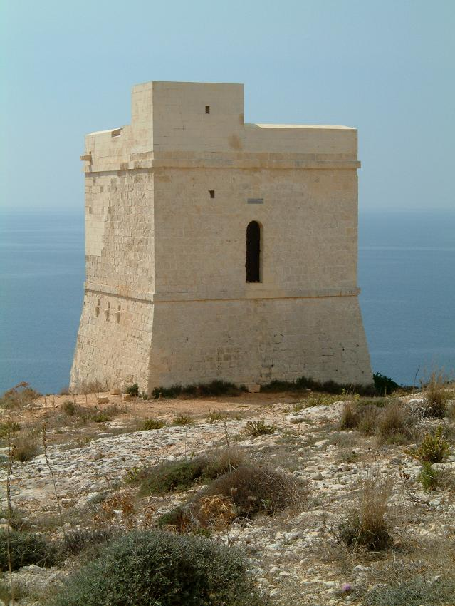 Hamrija Tower North-Eastern side, entrance clearly door visible, photo taken from the immediate North-Eastern cliffs. Photo by Joseph J. Zarb